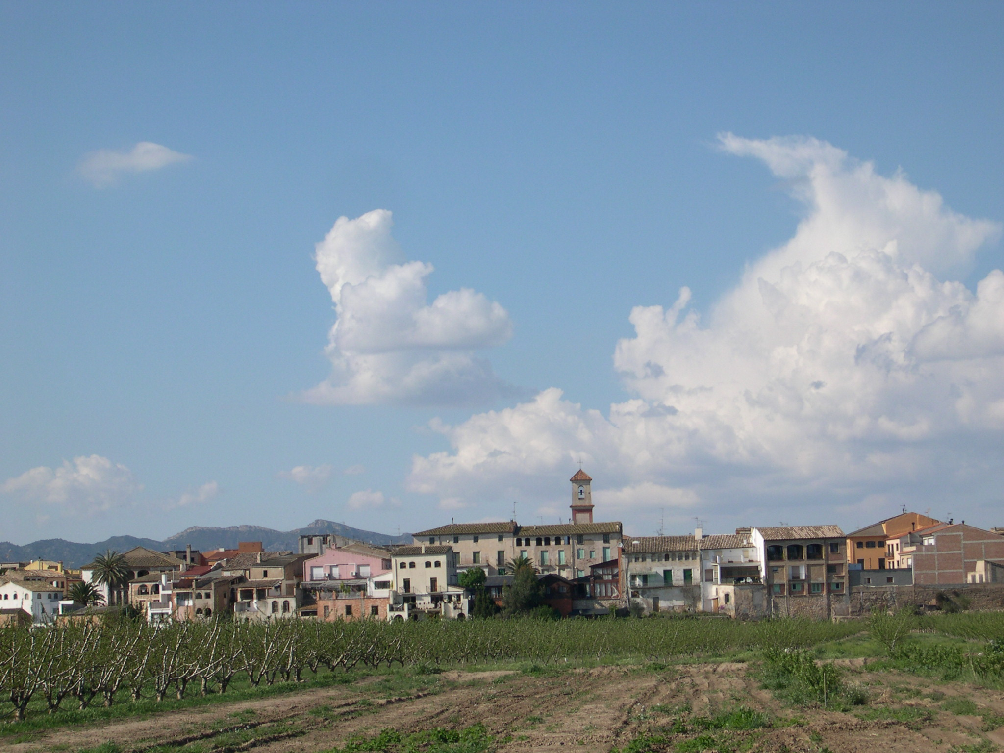 Benissanet